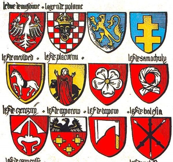 Львівська Хоругва 1410